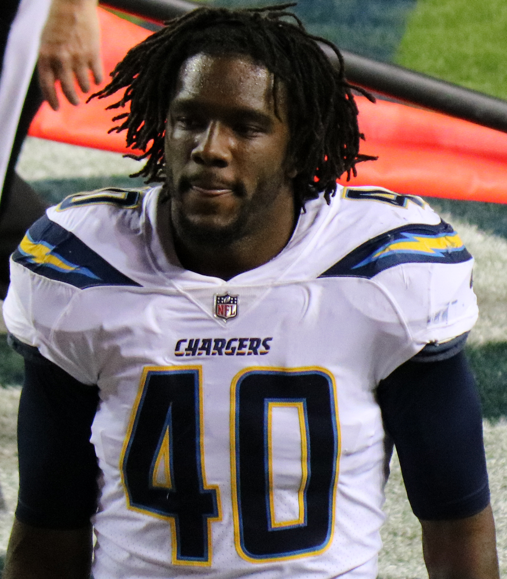 Chris McCain, a player on the National Football League.